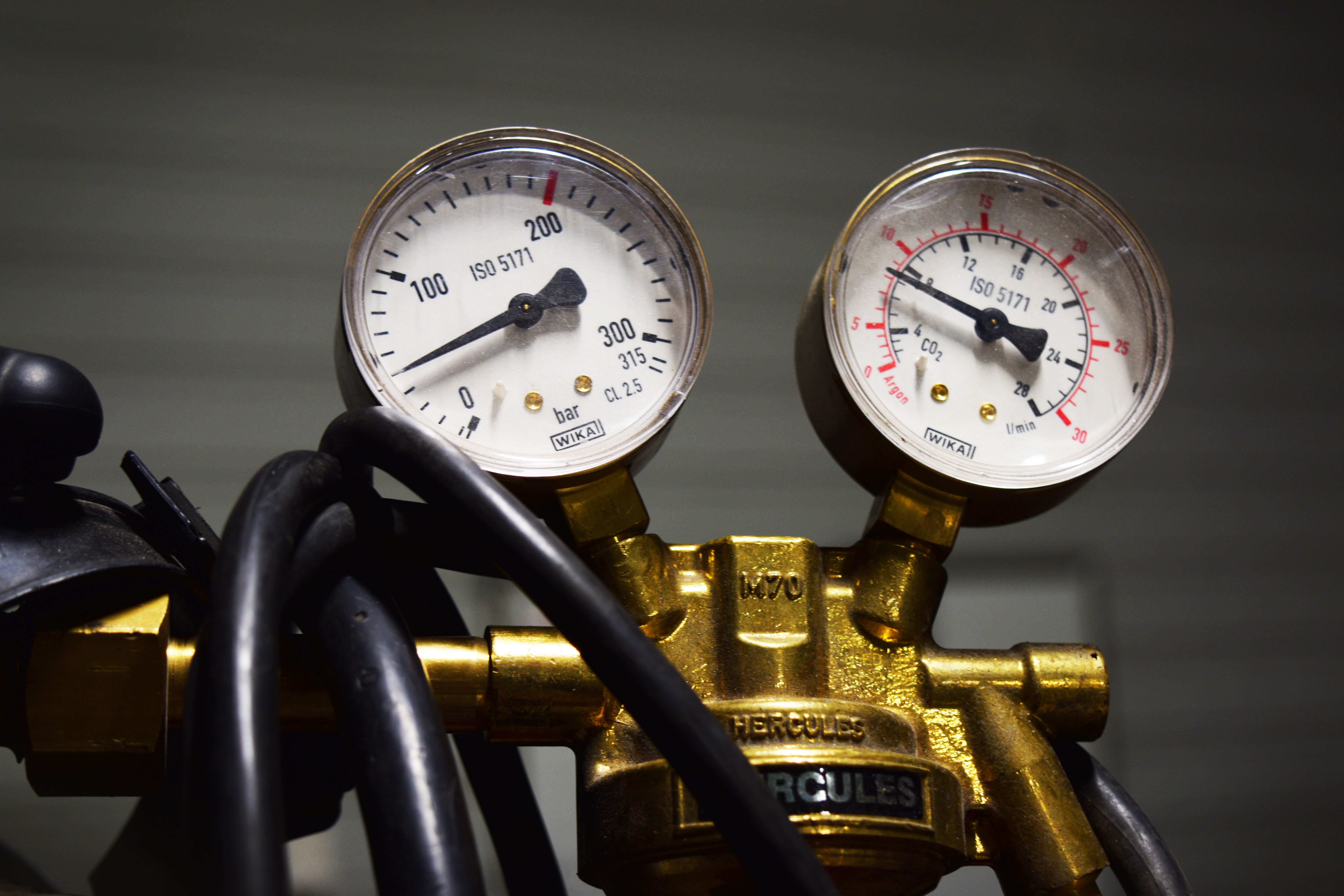 Gas regulator for GMAW (MIG/MAG) welding